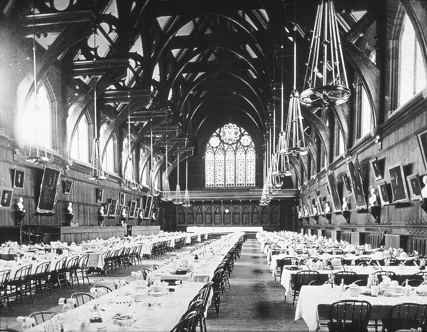 non-stereographic version of File:Interior,_Memorial_Hall,_Harvard_University.jpg